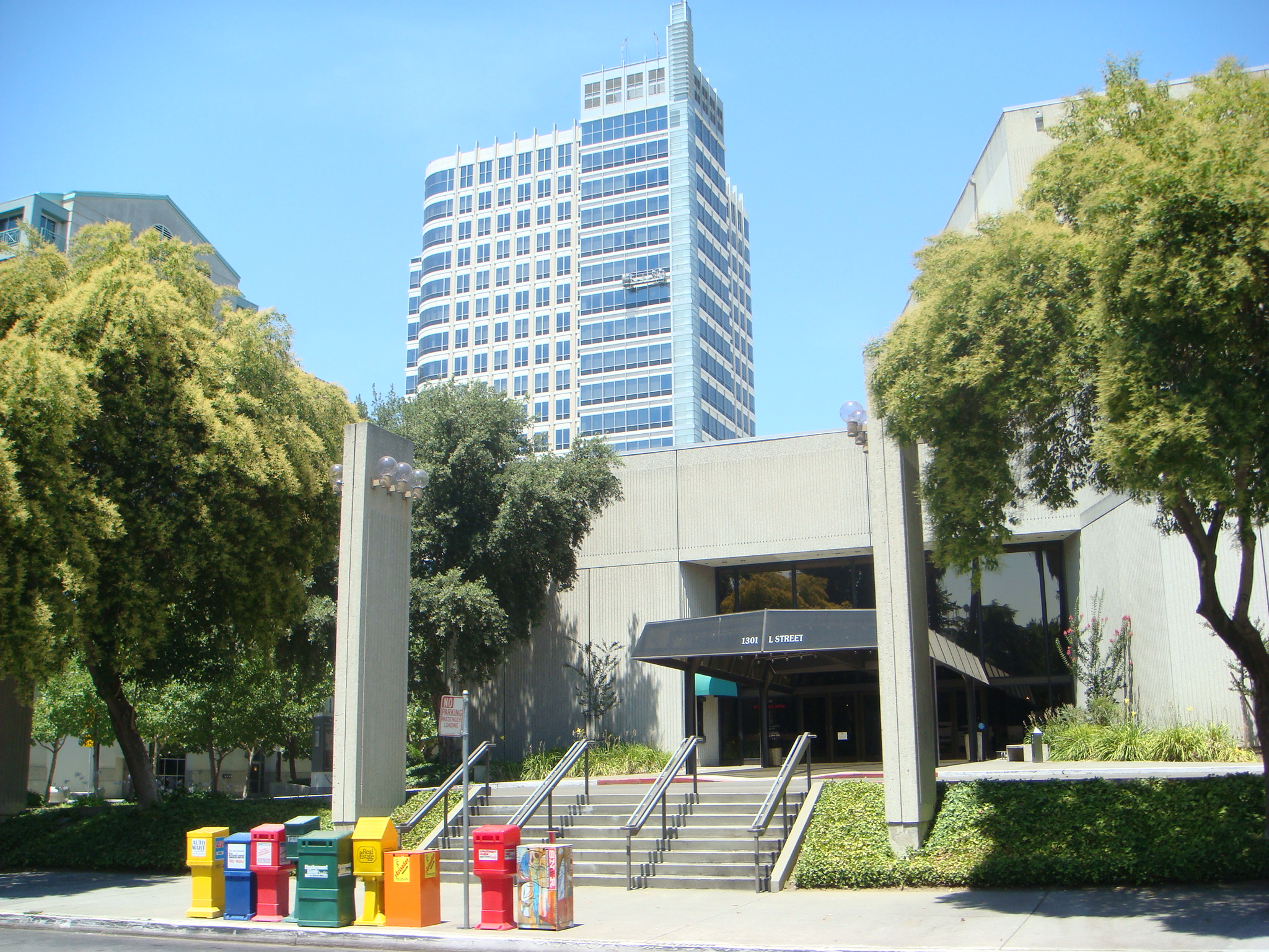 The Community Center Theatre, first opened in 1974.